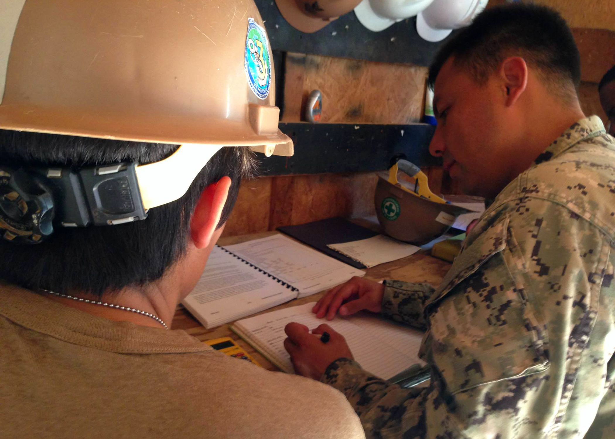 U.S. Navy Builder 1st Class Sergio S. Armas, with Naval Mobile Construction Battalion 3, inspects project log books to ensure Builder 3rd Class Micaela Tennant is keeping them up to date at Commander Fleet Activities Chinhae, South Korea, Aug. 27, 2013. NMCB-3 provides combatant commanders and Navy component commanders with combat-ready warfighters capable of general engineering, construction and limited combat engineering across the full range of military operations.